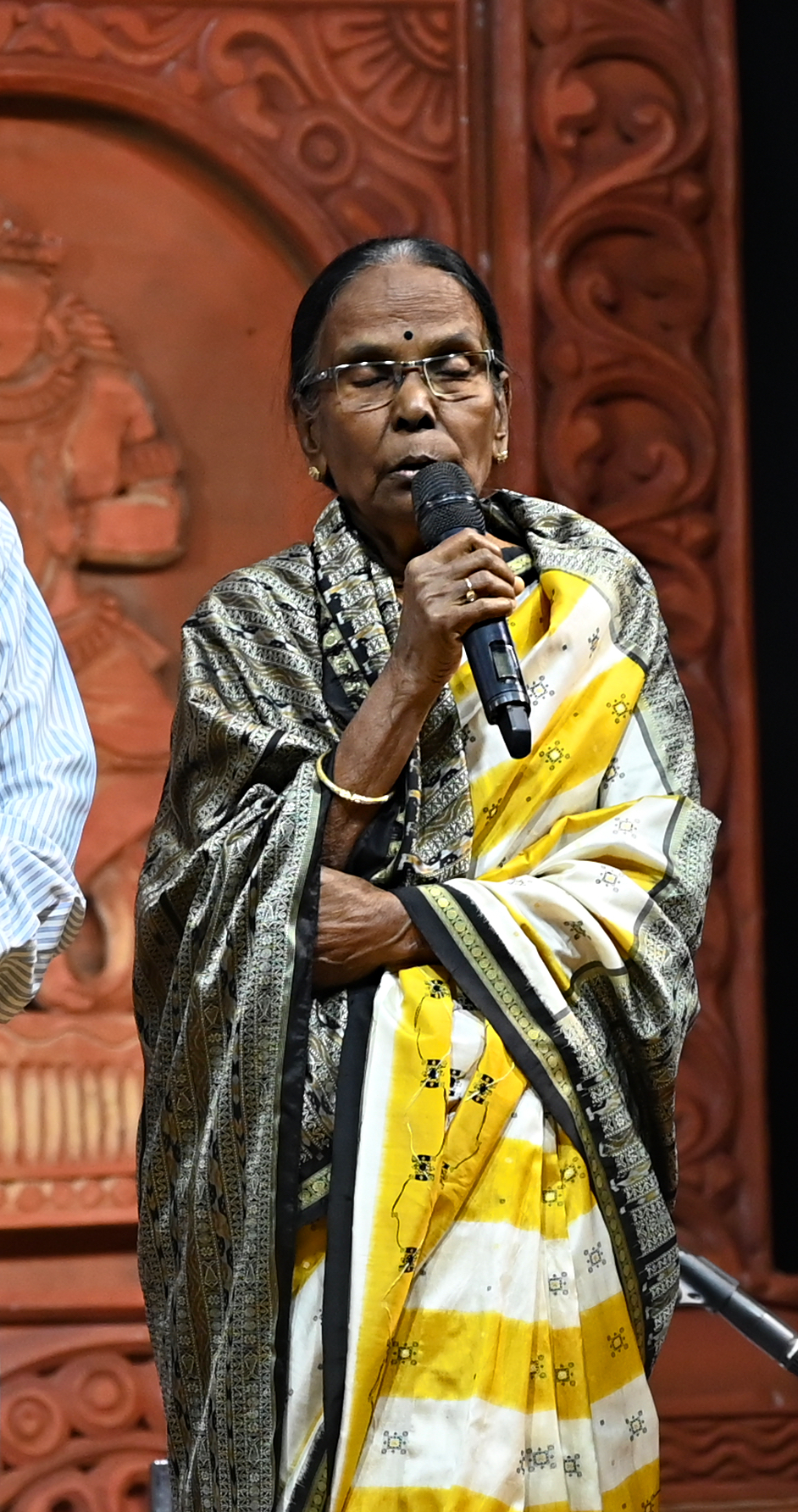 Veteran vocalist Shyamamani Devi (Patnaik) performs songs of Odissi Classical Music belonging to the Indian state of Odisha. Photograph taken during performance in Sanskruti Bichitra : Odissi Asara organised by the Department of Culture, Government of Odisha in association with Utkal Sangeeta Mahabidyalaya and Guru Kelucharan Mohapatra Odissi Research Centre. Personality rights warningAlthough this work is freely licensed or in the public domain, the person(s) shown may have rights that legally restrict certain re-uses unless those depicted consent to such uses. In these cases, a model release or other evidence of consent could protect you from infringement claims.